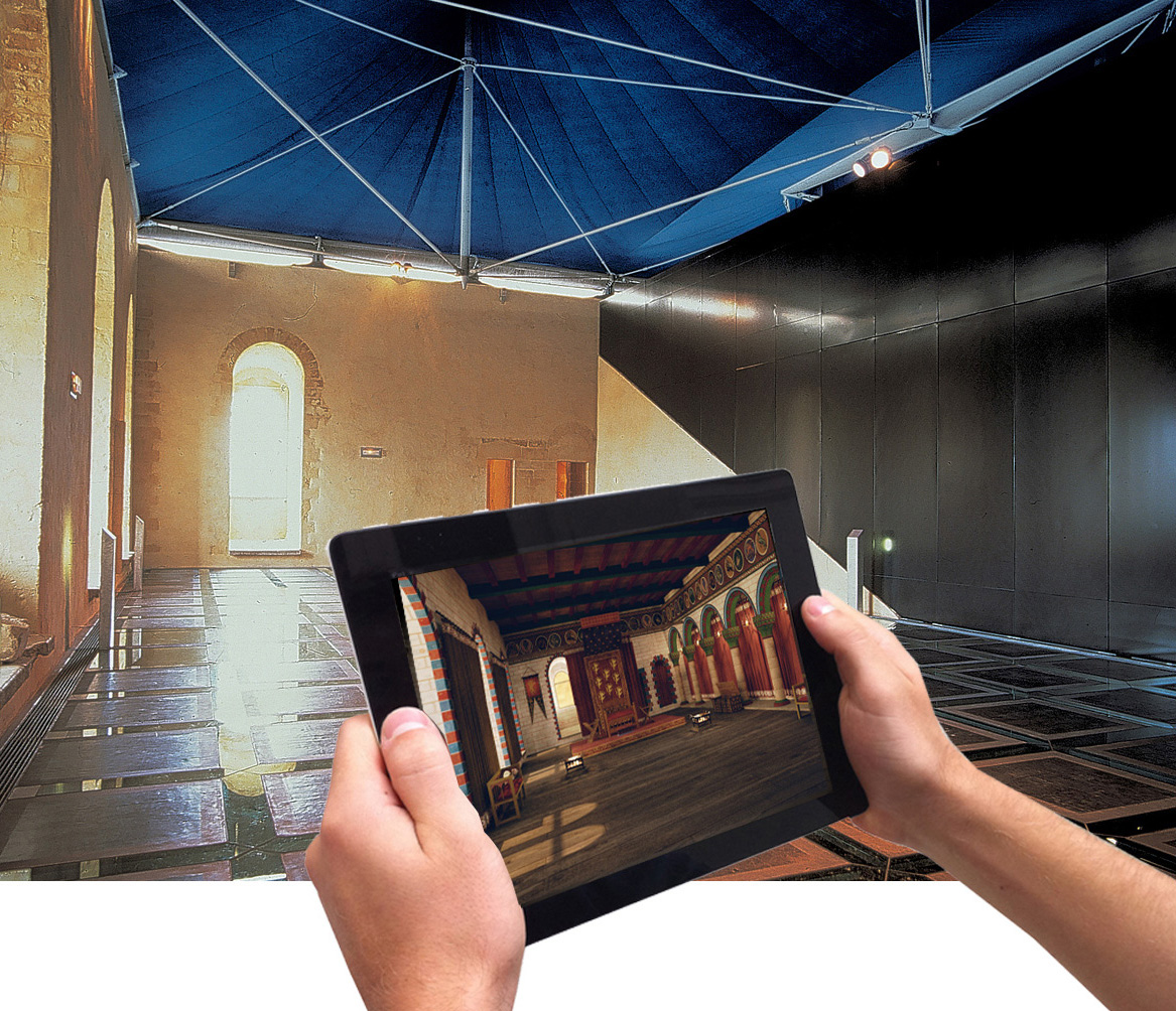 Exemple d'HistoPad